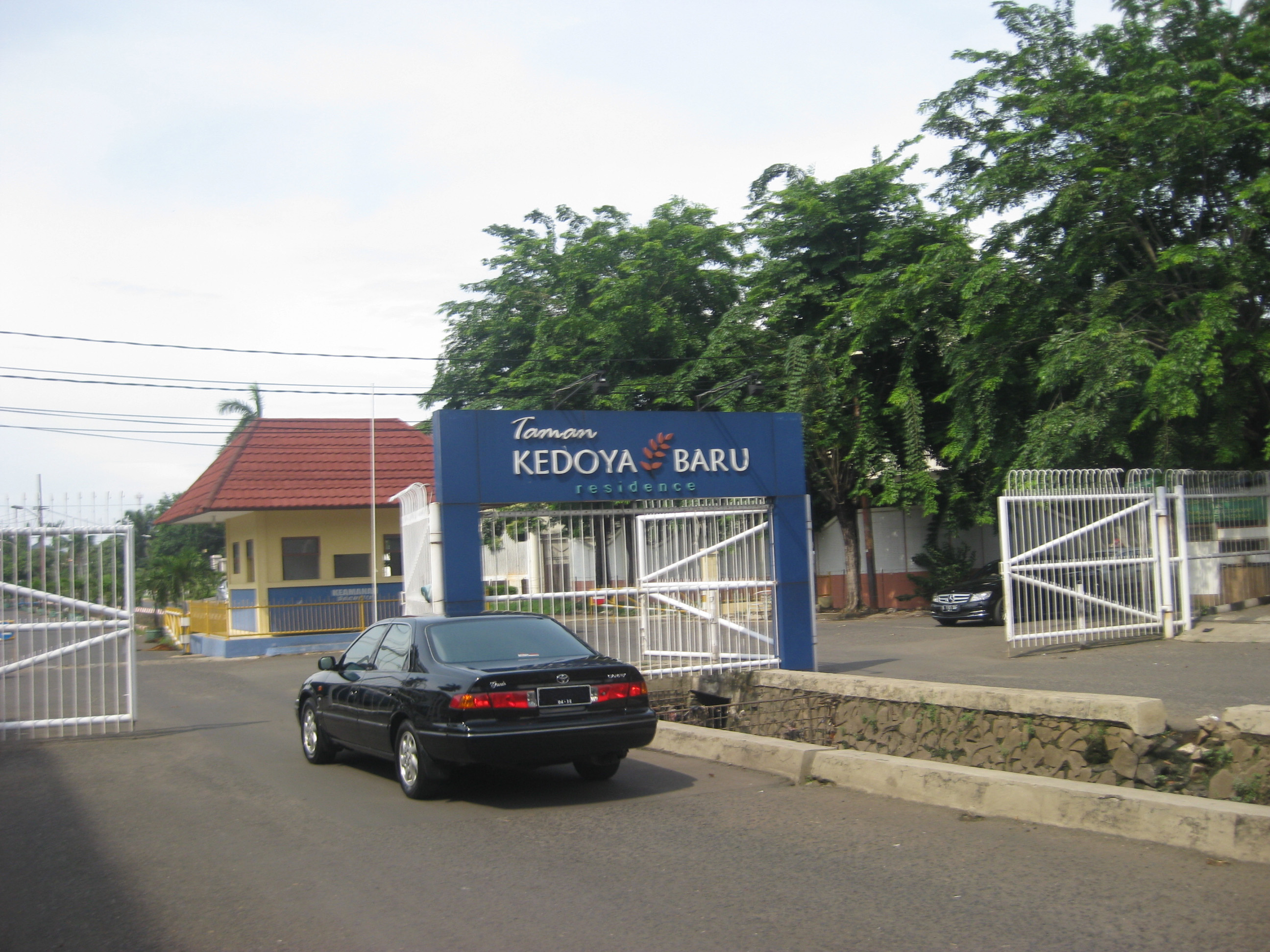 The main gate of Taman Kedoya Baru residence on Jalan Kedoya Albasia Raya in Kebon Jeruk, West Jakarta. Car shown is Toyota Camry V6 Grande (MCV20).